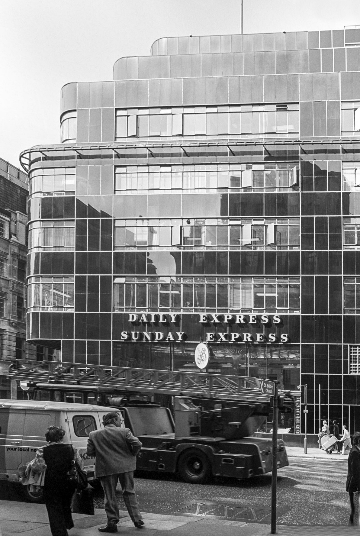 The Daily Express building, 120-129, Fleet Street EC4 (Photographed circa 1978)